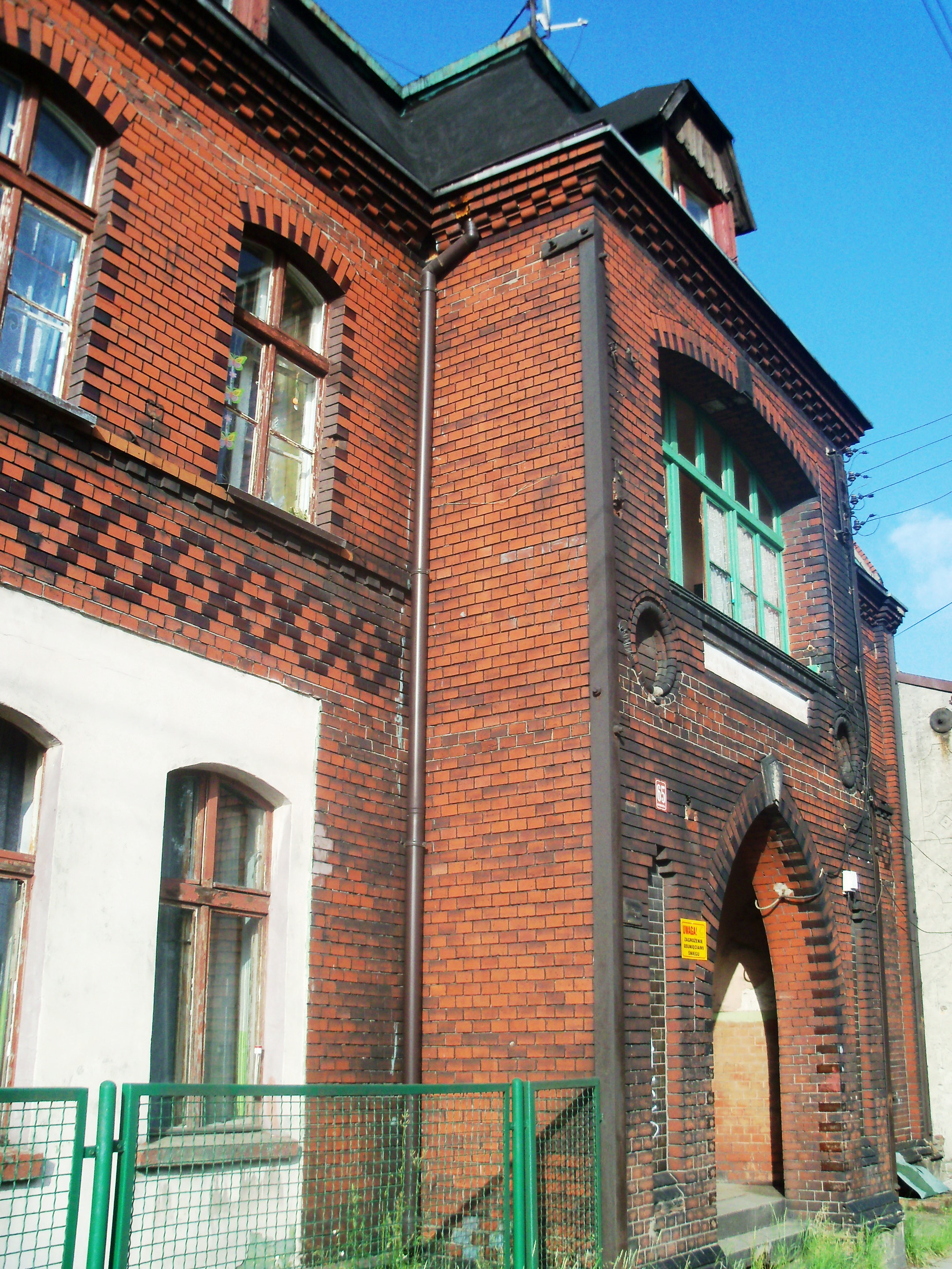 Oswobodzenia Street in Katowice